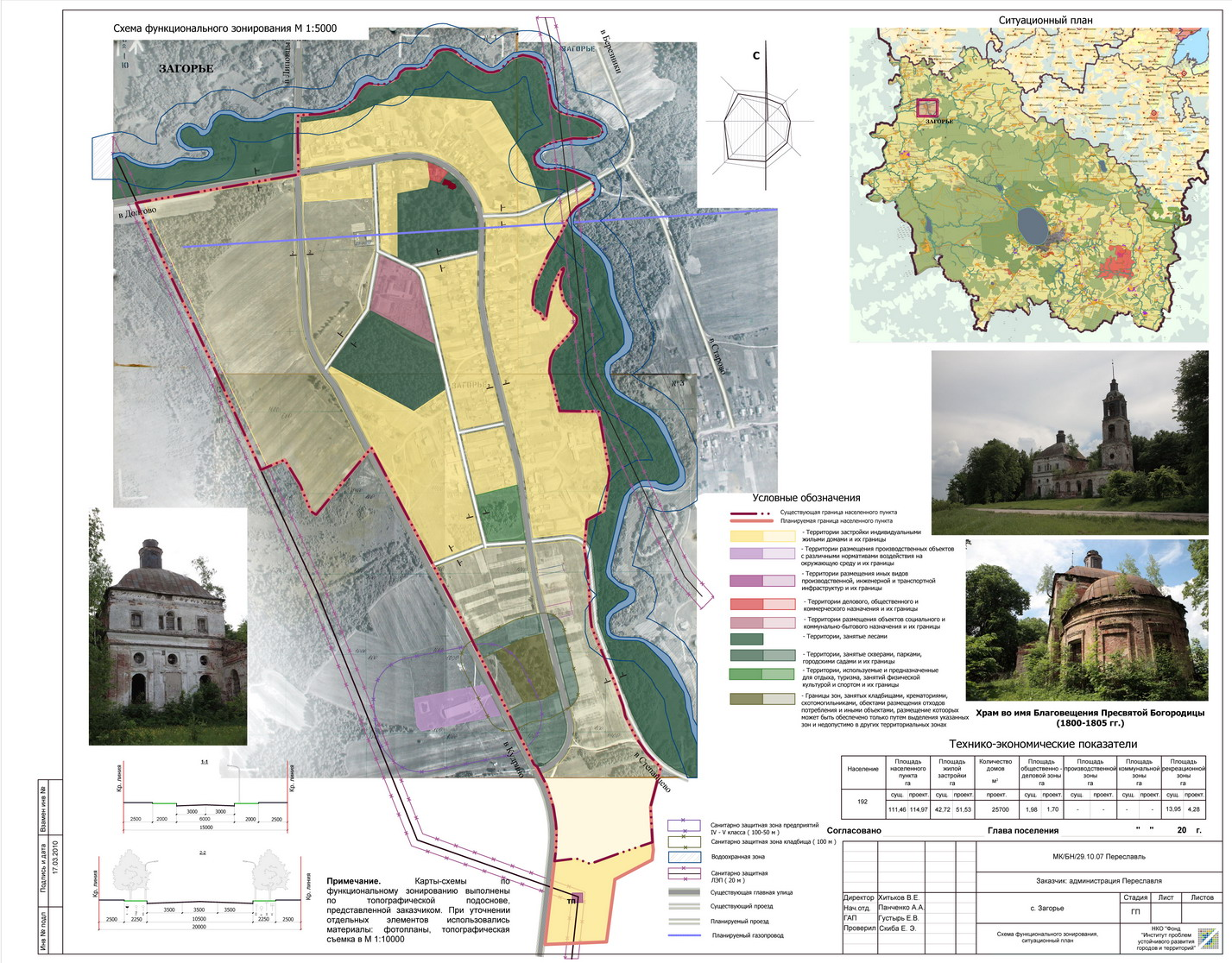 General plan of Nagorye rural settlement (Yaroslavl Oblast) 2008. Zagorye.